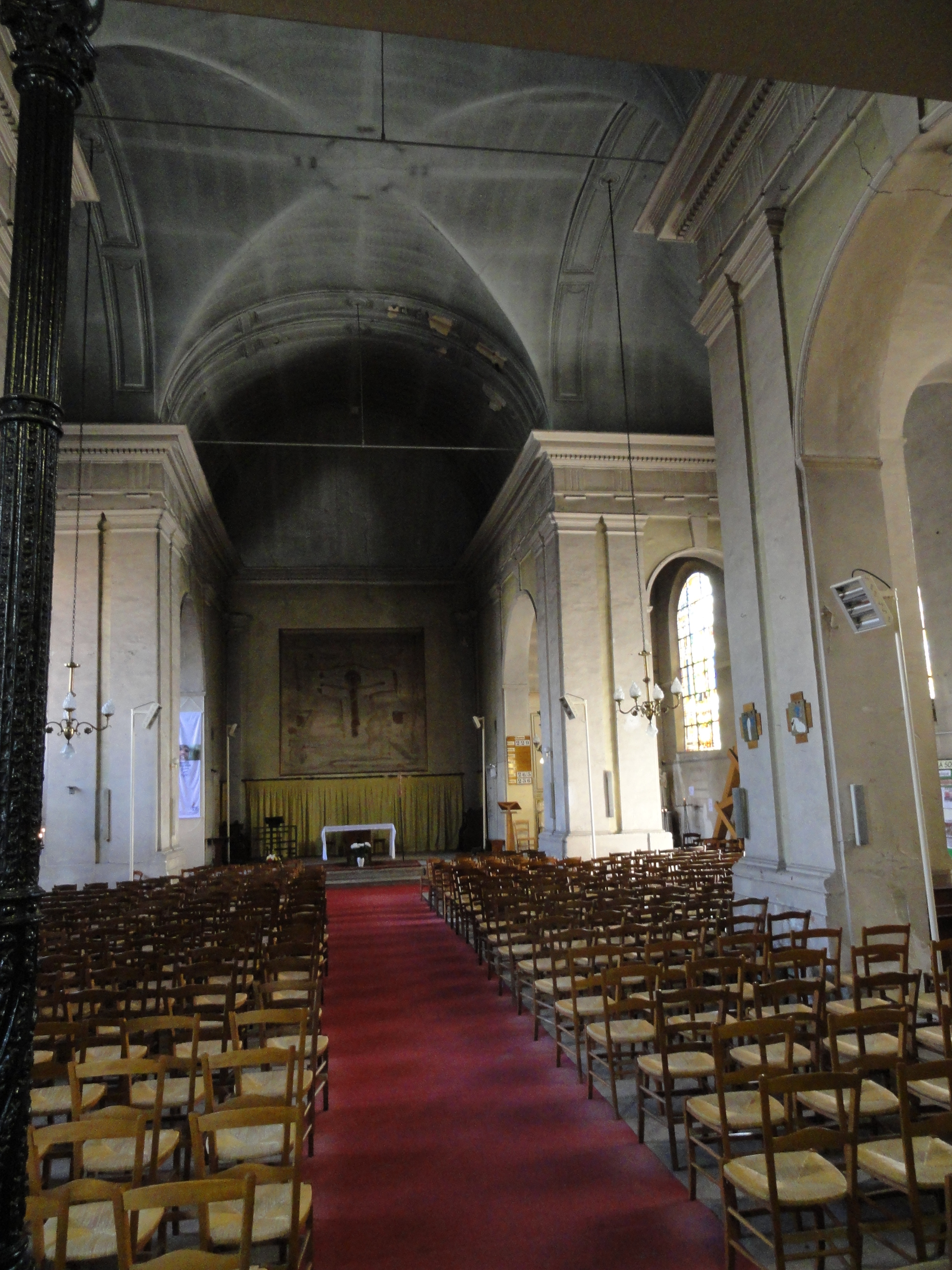 Church Saint-Germain l'Auxerrois of Pantin- Historic monument- Interior